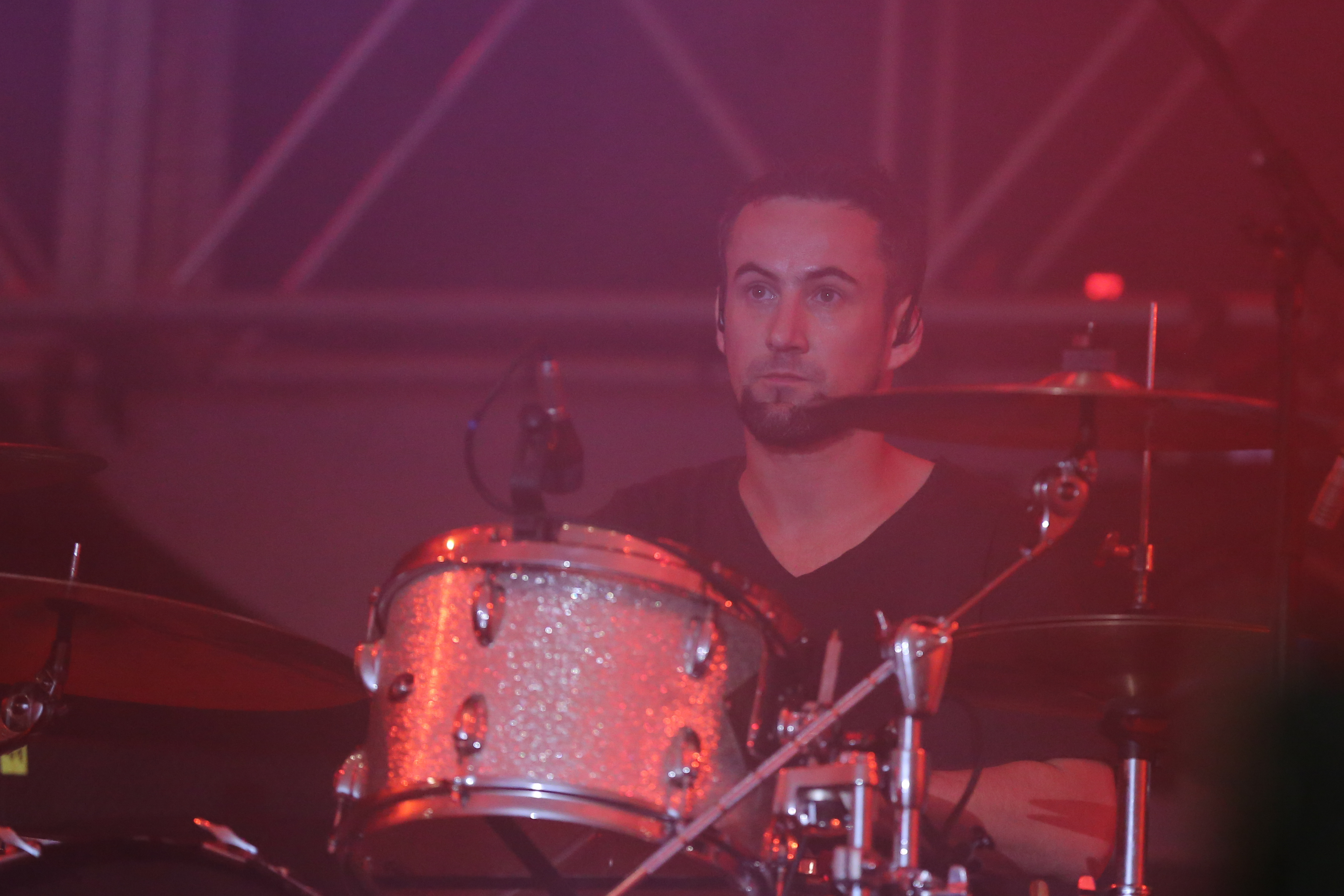 Przystanek Woodstock in 2017.